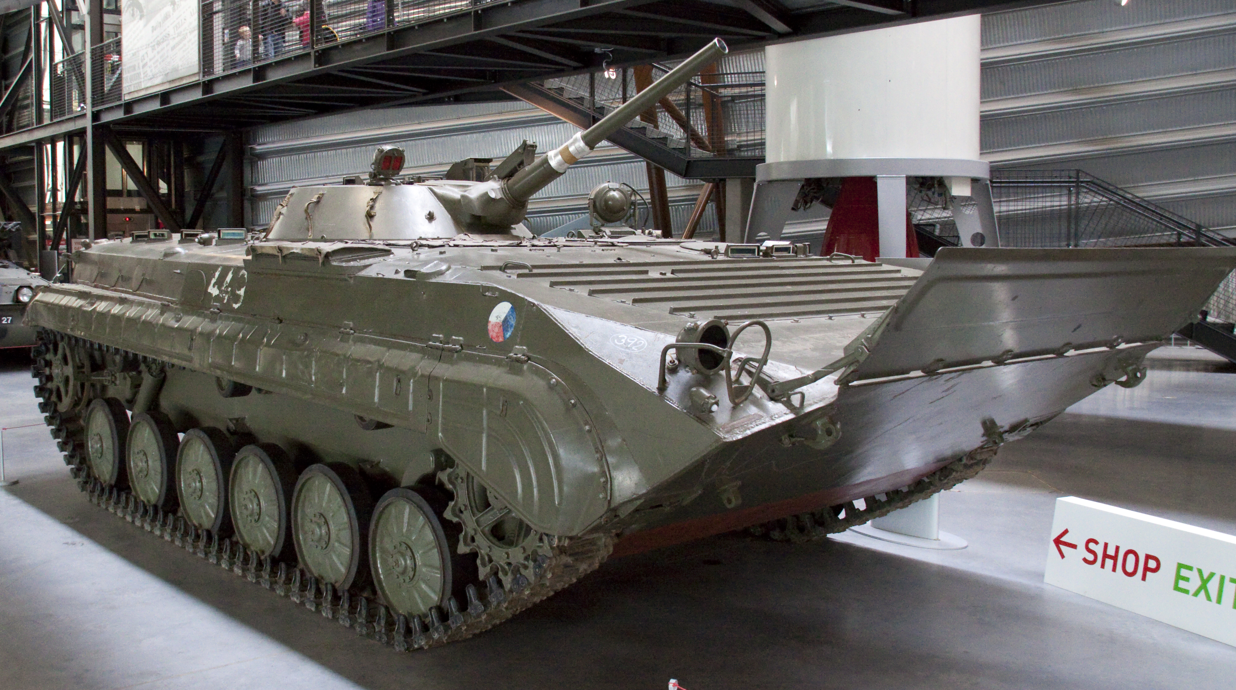 BVP-1 in RAF museum in Albrighton, England.